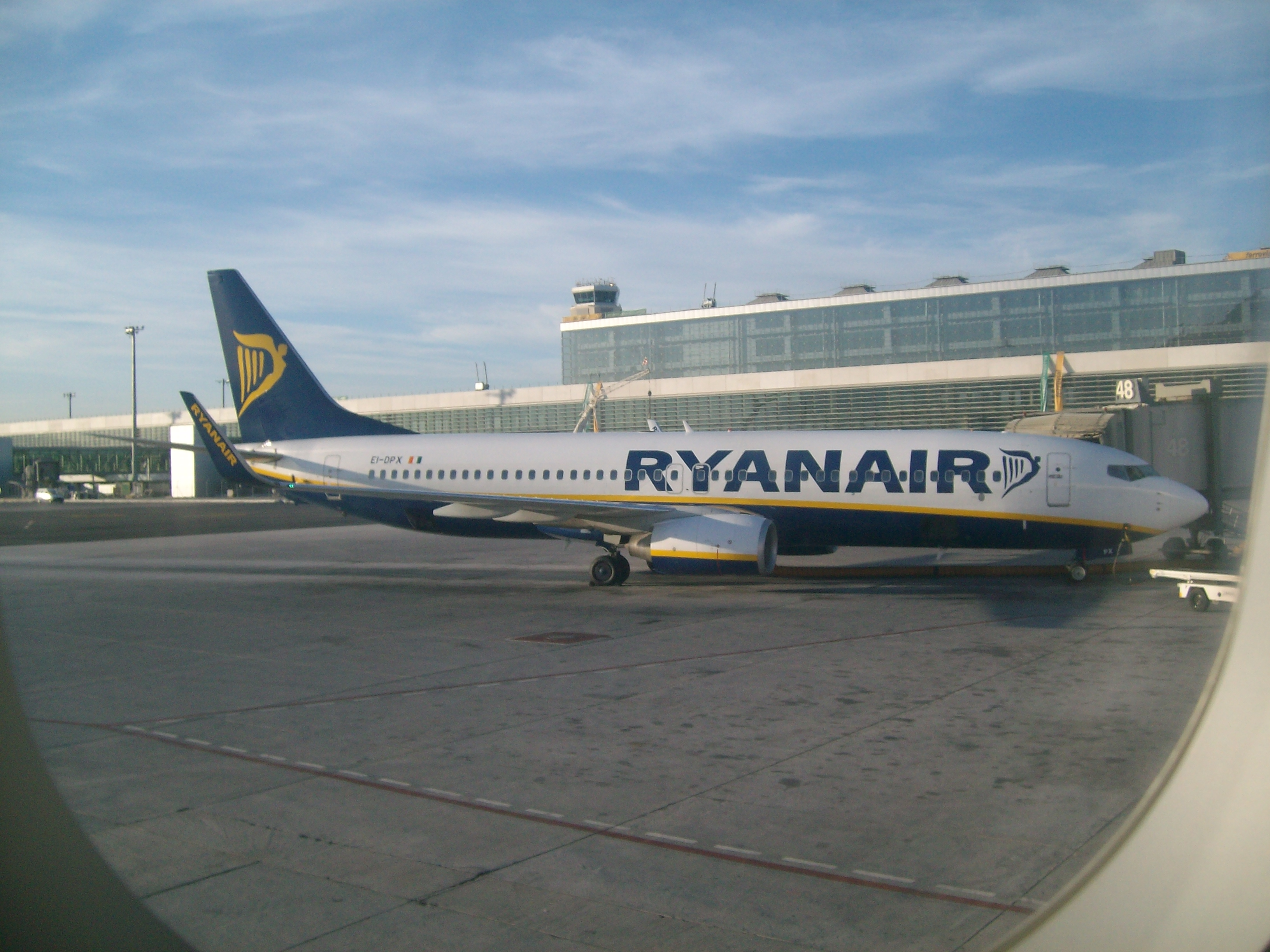 A Ryanair 737 at gate C48 (now gate C35) at Malaga Airport bound for Stansted, whilst awaiting on a Monarch flight to Manchester. New terminal in background